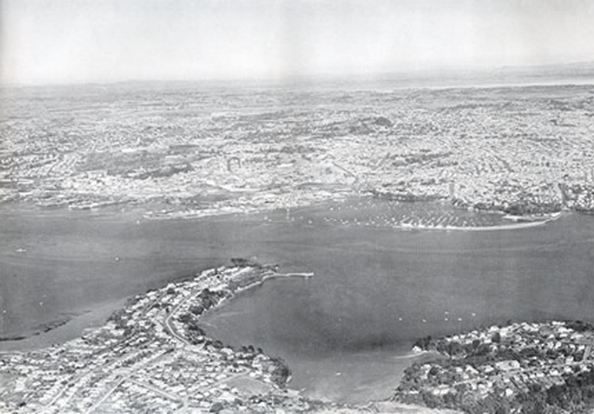 Image of the Waitemata Harbour, area of current Auckland Harbour Bridge in Auckland, New Zealand. Taken in 1947 by the Auckland Harbour Board, a local government entity. The view is taken from an airplane approximately over Northcote, looking south.